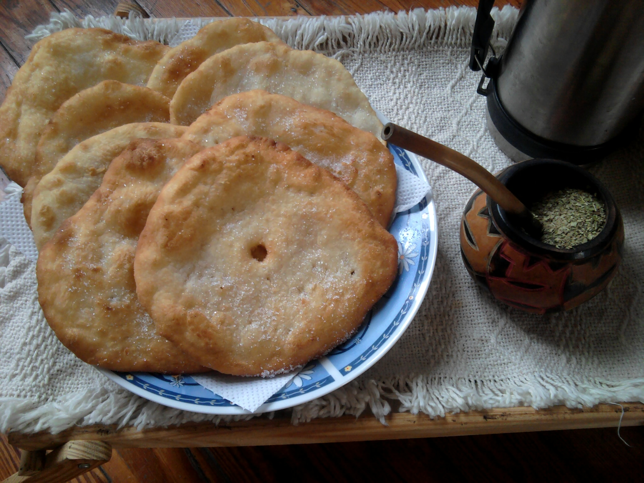 Tortas are fried tortillas made ​​from flour, butter, egg and water or milk. The masa is split into disks (usually cut and shaped by hand, with the intention of leaving irregular), to which they make a small hole in the center to prevent inflate in baking, frying contained in the mass. Usually then sprinkled with sugar. It is a typical snack River plate (Uruguay - Argentina), and often accompanying a mate drink.